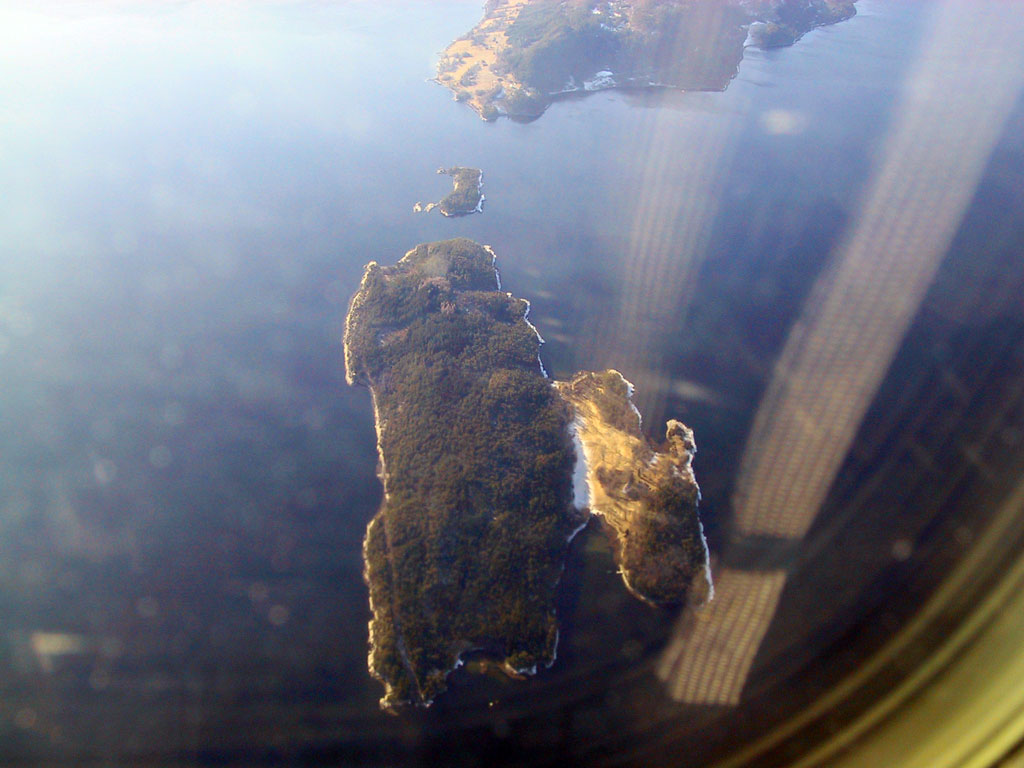 Aerial photo of Veøy, with Sekken at the top, and Hangholmen in between.